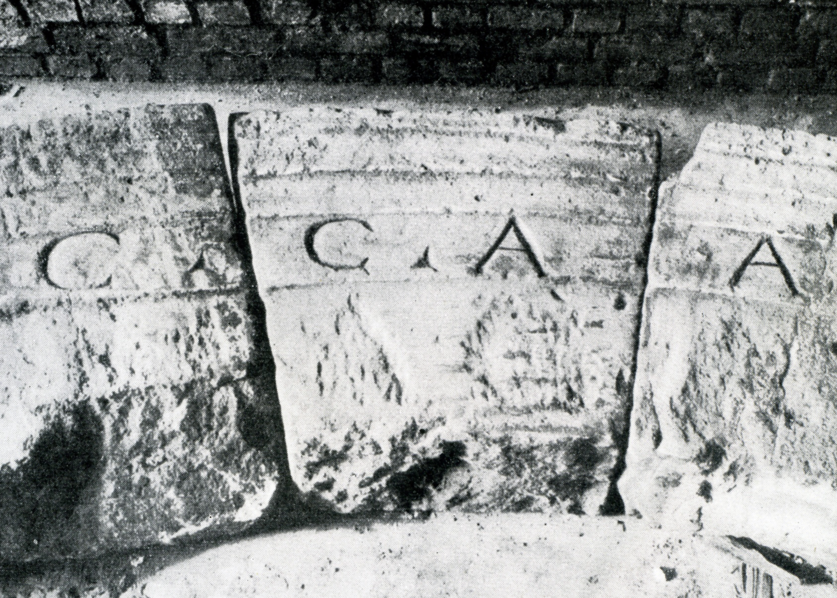 Fragment of the Roman North Gate in Cologne. The upper inscription C.C.A.A. is from the time the gate was built, around 50 AD. The lower inscription, [...]NA GALLIENA[...] refers to emperor Gallienus, who took control over Cologne in 254 and who regularly stayed there.